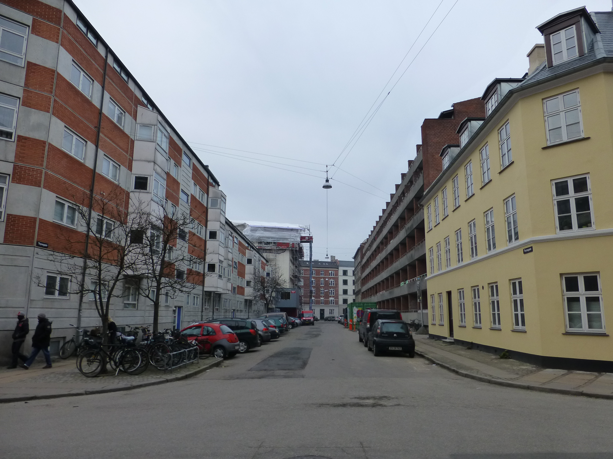 Thyrasgade is a street in Nørrebro in Copenhagen.